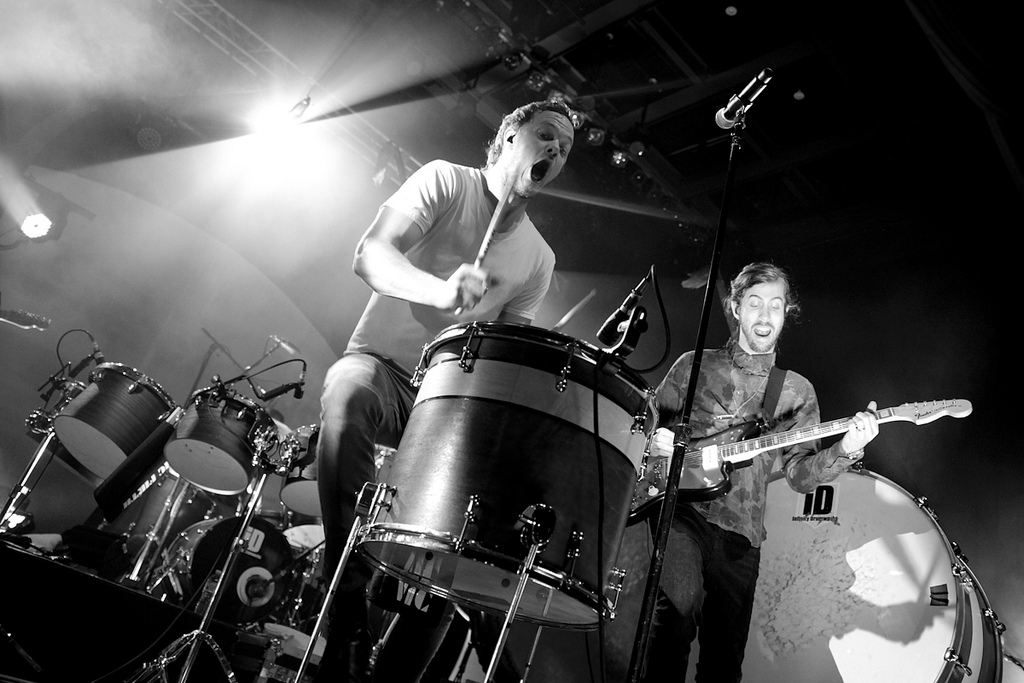 Imagine Dragons en vivo 2013.